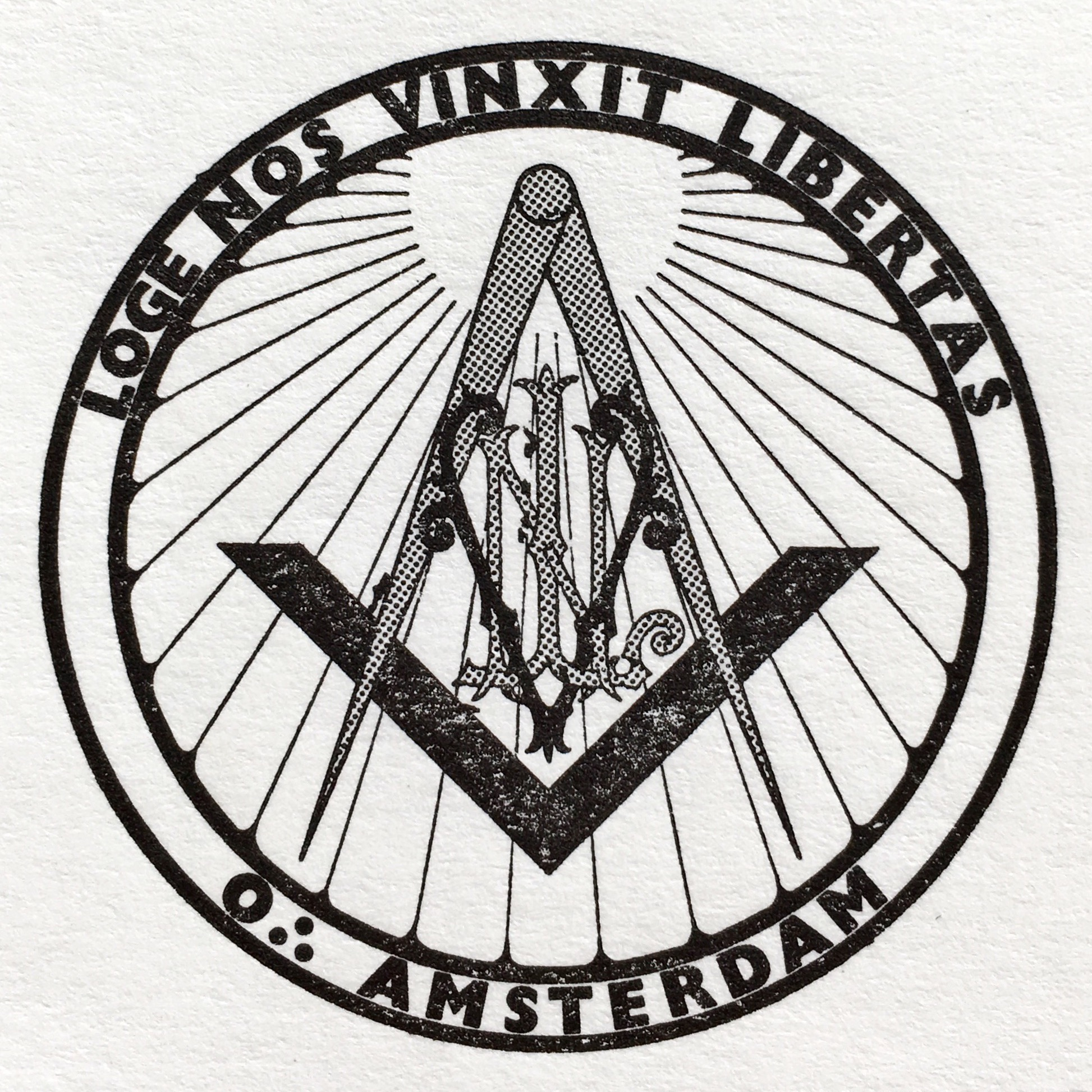 Seal of a Dutch Masonic Lodge